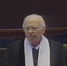 Richard C. Halverson, former Chaplain of the United States Senate, delivering opening prayer for Senate session.